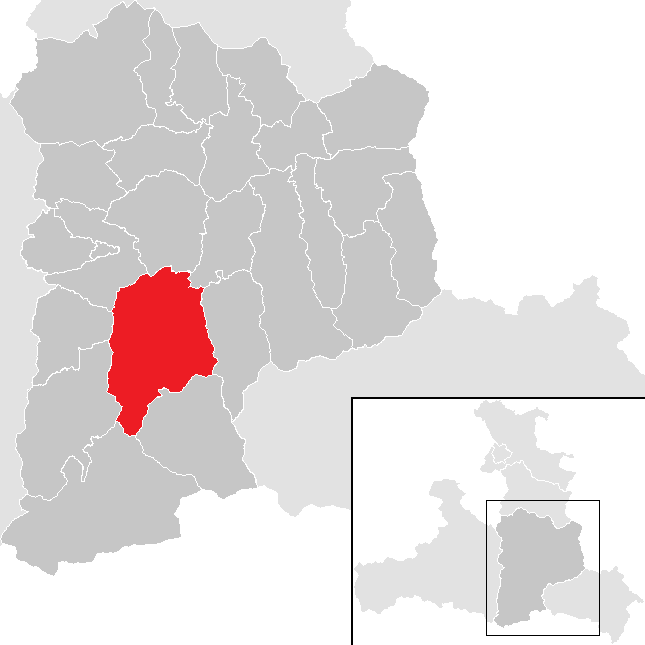 District Sankt Johann im Pongau